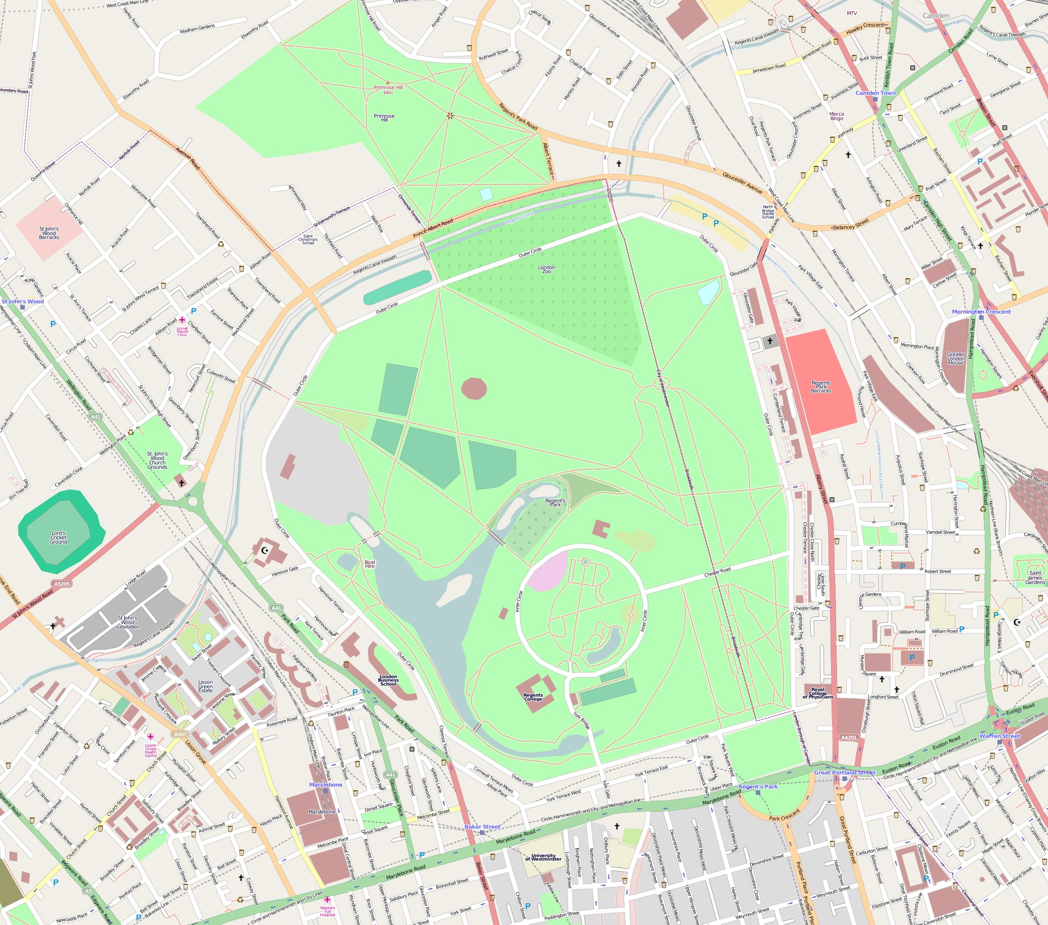 This map of Regent's Park was created from OpenStreetMap project data, collected by the community. This map may be incomplete, and may contain errors. Don't rely solely on it for navigation.